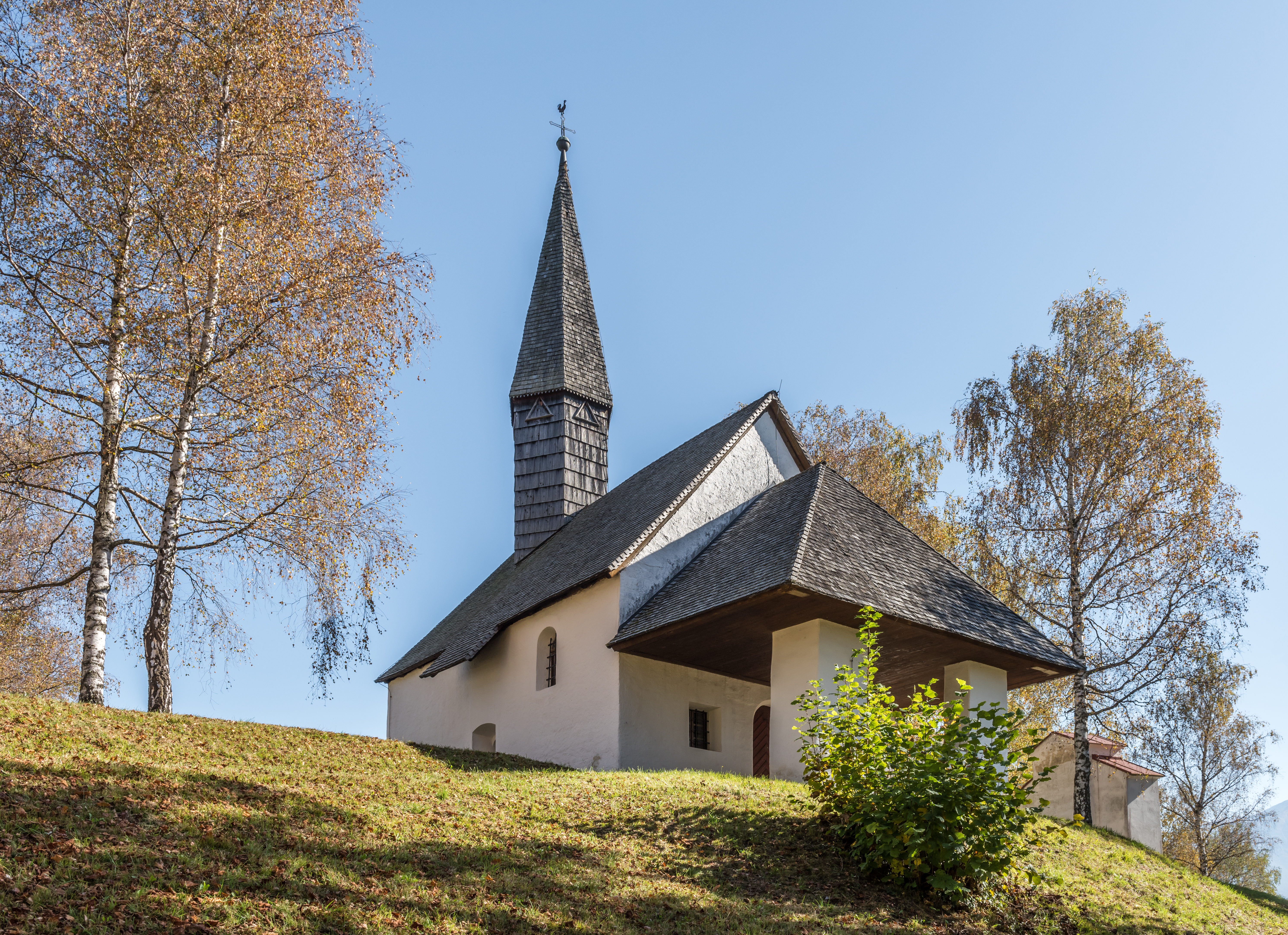 Subsidiary church Holy Spirit on Kreuzberglweg #21, market town Eberndorf, district Voelkermarkt, Carinthia, Austria, EU